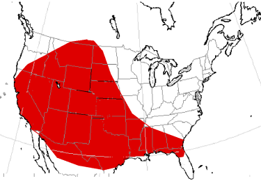 Fossil range of Temnocyonines